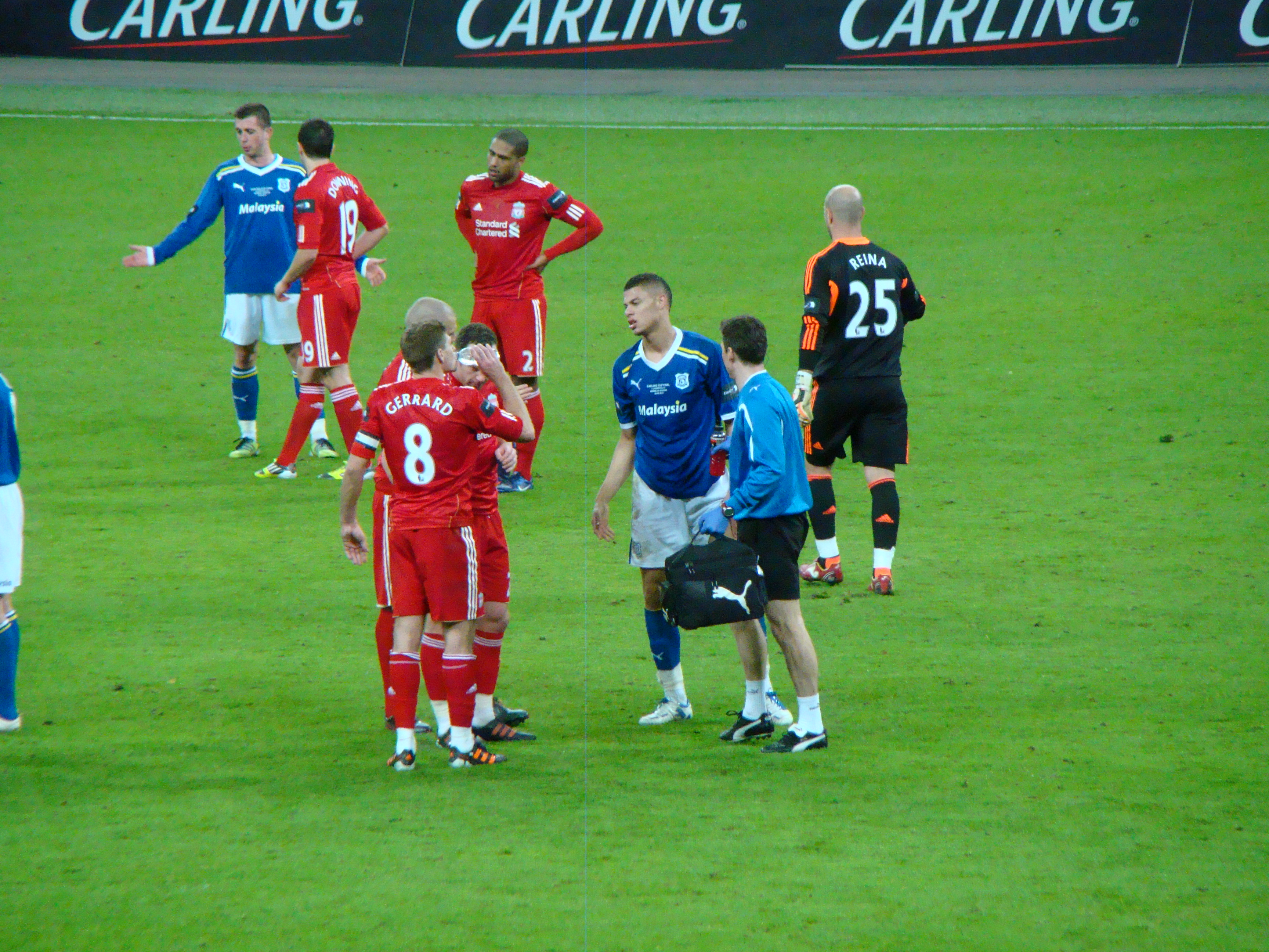 26/02/12 Cardiff V Liverpool, Football League Cup Final, Wembley, London